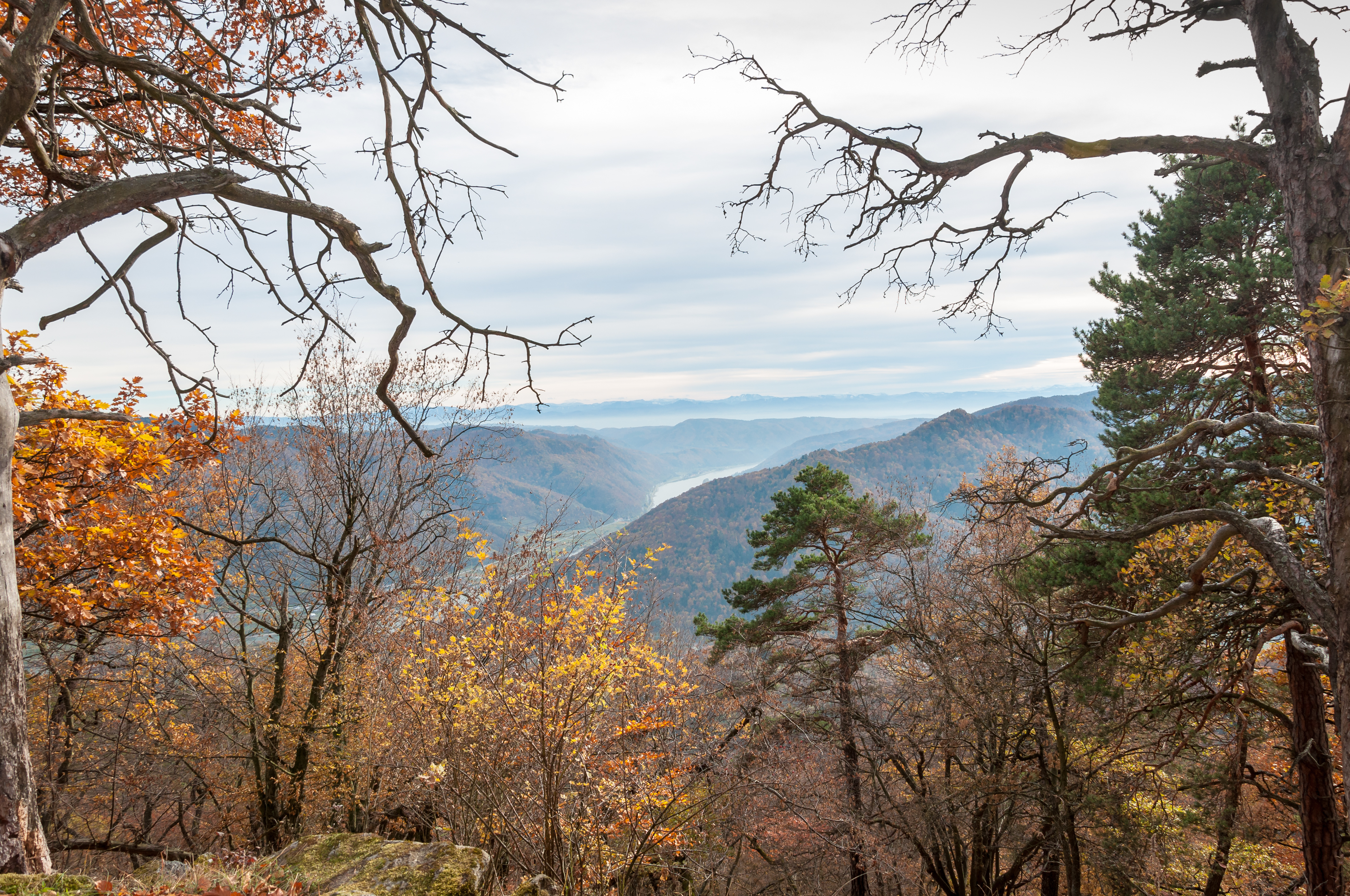 View from Buchstein (702 m, community of Spitz) upstream in the Danube Valley. This part of the Danube valley is belonging to the Wachau Cultural Landscape (UNESCO World Heritage - cultural site).